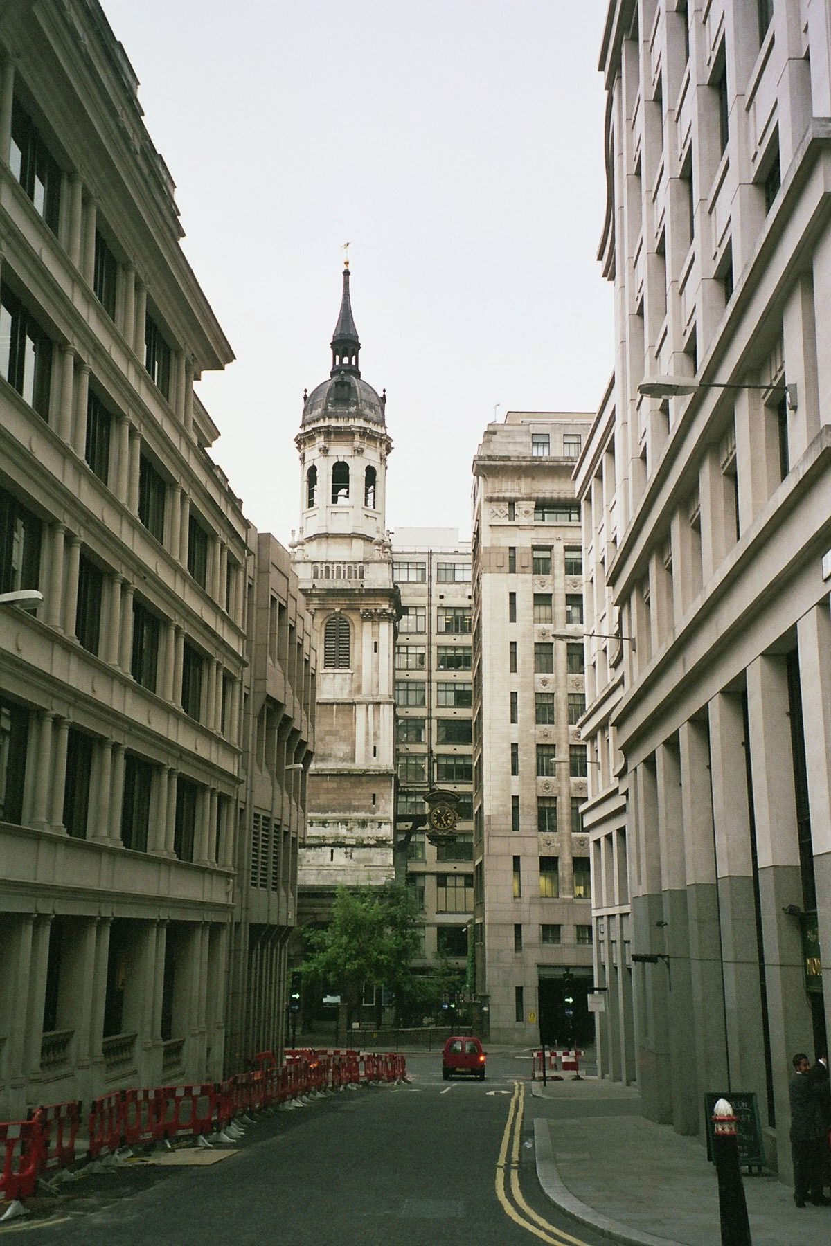 London, This isn't The Monument (to the Great Fire of London). It appears to show the tower of one of the churches in the City of London. Copyright © 2005 David Monniaux